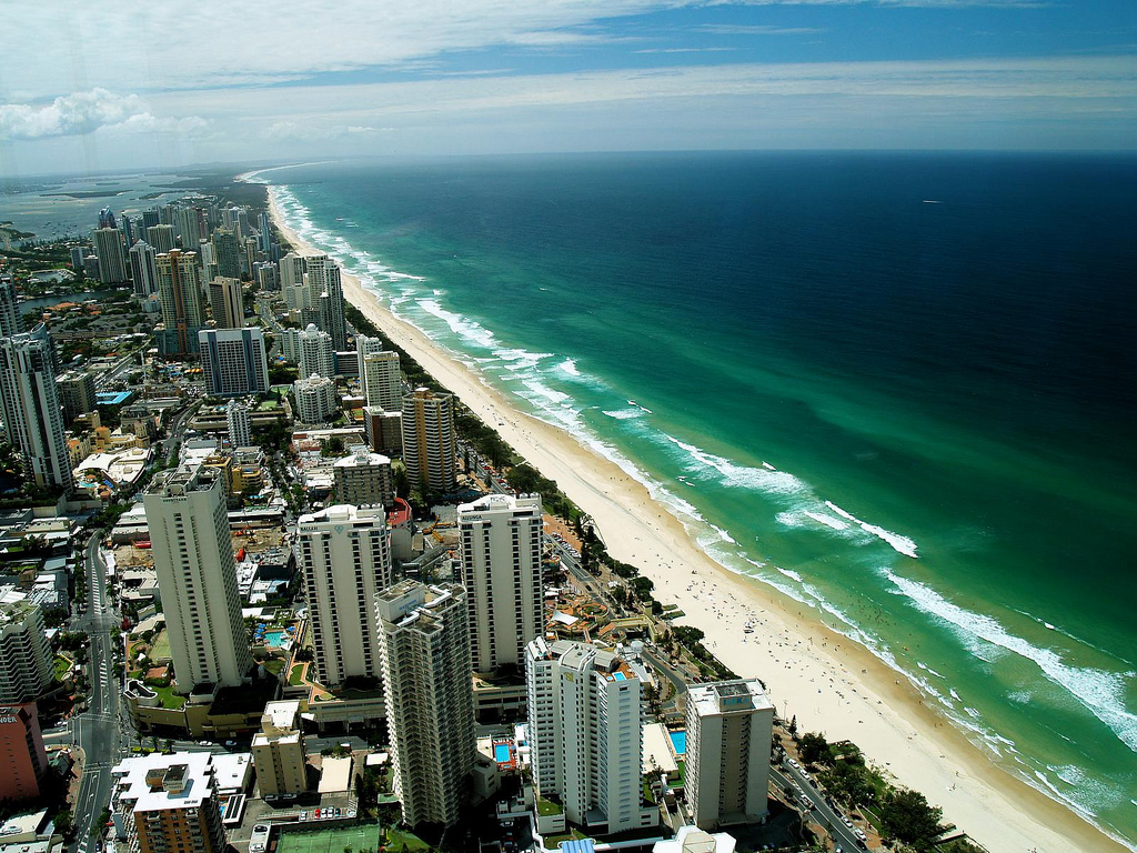 That's why it's called the "Surfers Paradise". Beautiful view from the Q1 Observation Deck Reflection! If only the windows weren't there. I would've fallen if there weren't. Haha